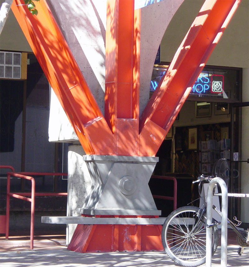 Use of detail in seismic retrofit exterior structure. Image Sept 10, 2004 by User:Leonard G..